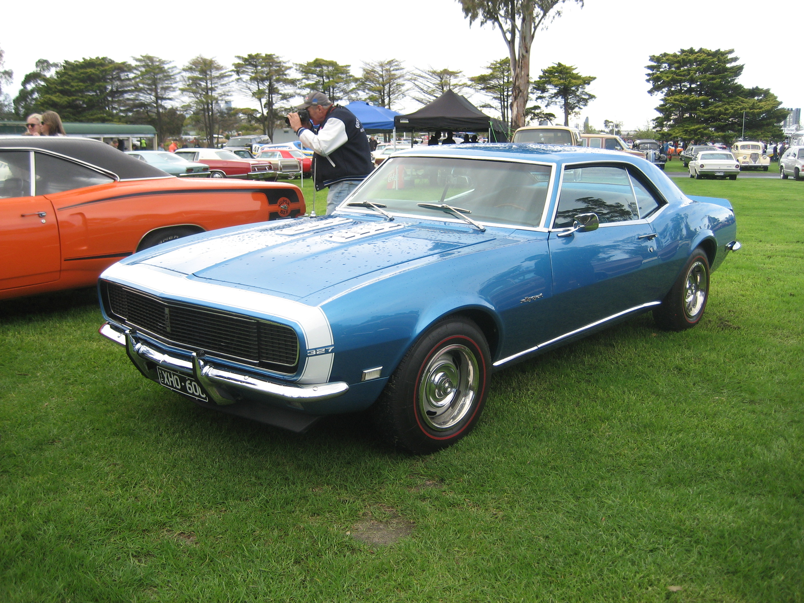 Engines; 230 & 250 6s or 327, 350 & 396 V8s RSs got hidden headlights, restyled taillights & rocker trim. 40977 RSs made in 1968